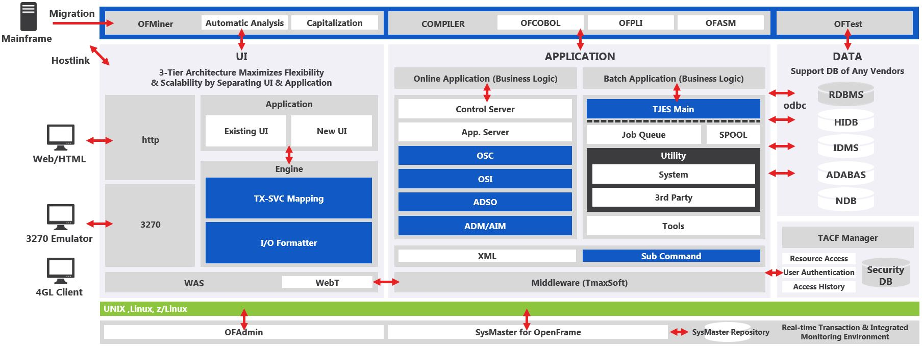 Solution architecture of OpenFrame 7.0